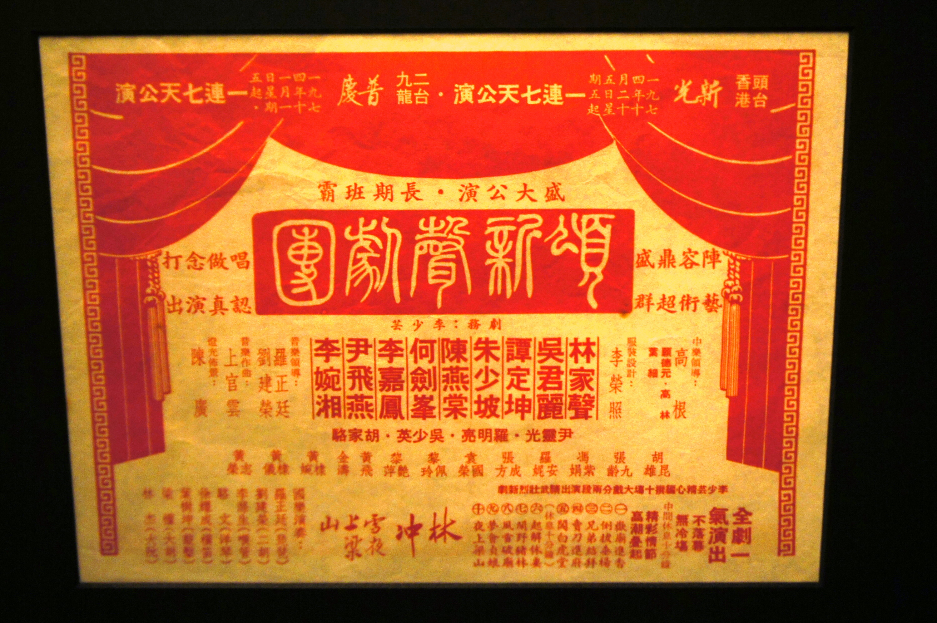 Handbill of the Chung Sun Sing Opera Troupe, 1974. An exhibit of the Hong Kong Heritage Museum.